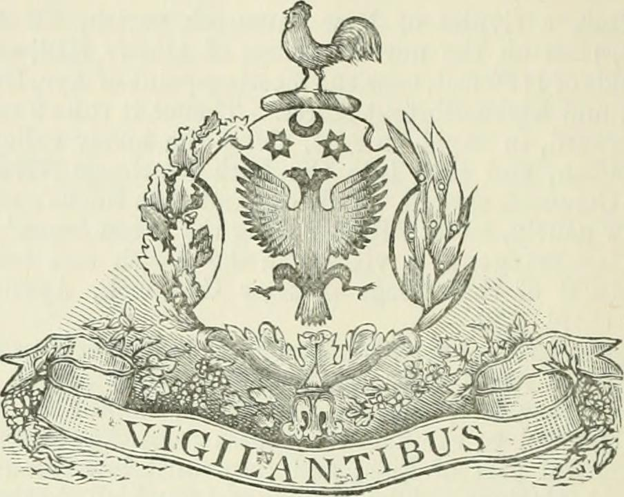 Arms of Airdrie. Adopted the General Police and Improvement Act.